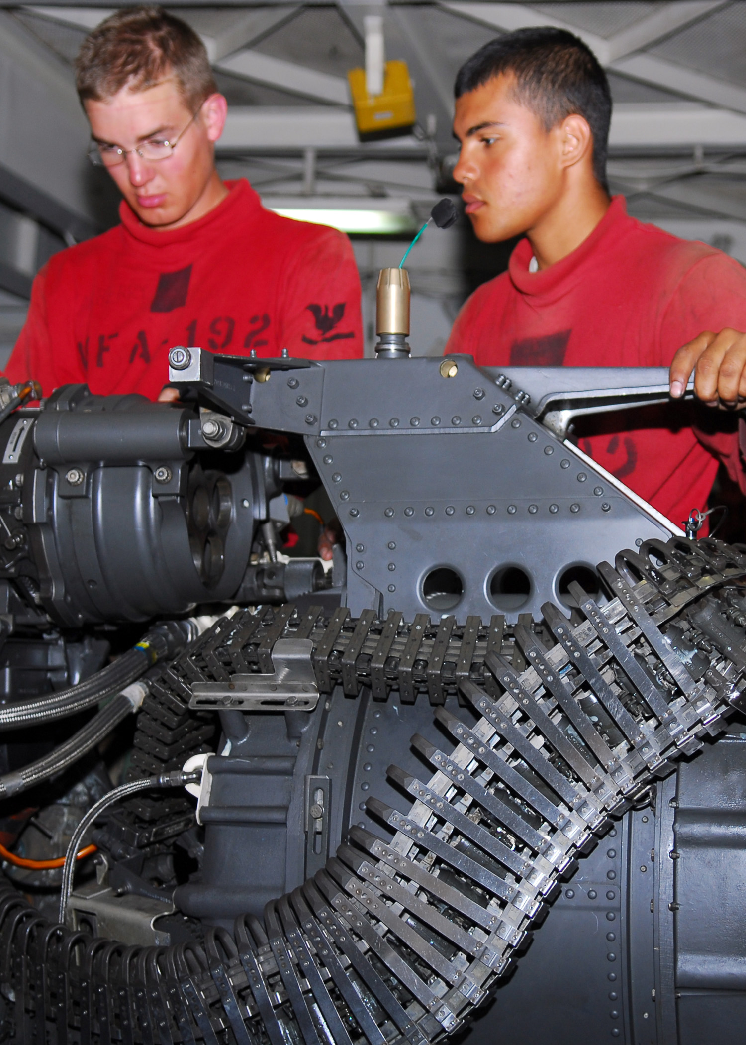 PACIFIC OCEAN (Aug. 2, 2008) Aviation Ordnanceman 3rd Class Brandon Yarberry, left, from Cincinnati, and Aviation Ordnanceman 2nd Class Michael Rodriguez, from Passaic, N.J., conduct a routine inspection on a 20mm MK-61 automatic gun in the hangar bay aboard the aircraft carrier USS Kitty Hawk (CV 63). Kitty Hawk is the Navy's oldest active-duty warship and will be replaced this summer by the nuclear-powered aircraft carrier USS George Washington (CVN 73) as the Navy's only permanently forward-deployed aircraft carrier. (U.S. Navy photo by Mass Communication Specialist 3rd Class Bryan Reckard/Released)